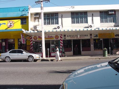 This one's for Phil Schwan, really. I didn't go in. This is the main streetscape in Nadi (pronounced Nandi), the most touristy and hence unpleasant of Fiji's towns. But around Nadi there are many good people and interesting developments. Photo by Masato Ikeda.